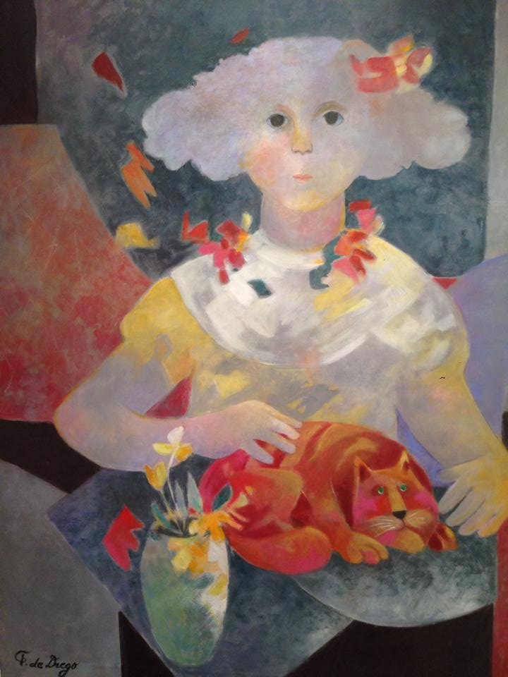 Pintura de Francisca de Diego ubicada en el museo de ka Casa del Risco,en San Ángel, México